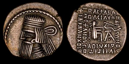 Coin of Artabanus III of Parthia from the mint at Ecbatana. The reverse shows a throned archer with a bow. The Greek inscription reads ΒΑϹΙΛΩϹ ΒΑϹΙΛΕΩΝ ΕΥΕΡΓΕΤΟΥ ΑΡϹΑΚΟΥ ΔΙΚΑΙΟϹ ΕΠΙΦΑΝΟΥϹ ΦΙΛΕΛΛΗΝΟϹ (king of kings Arsaces, bringer of plenty, the just, friend of the Greeks).